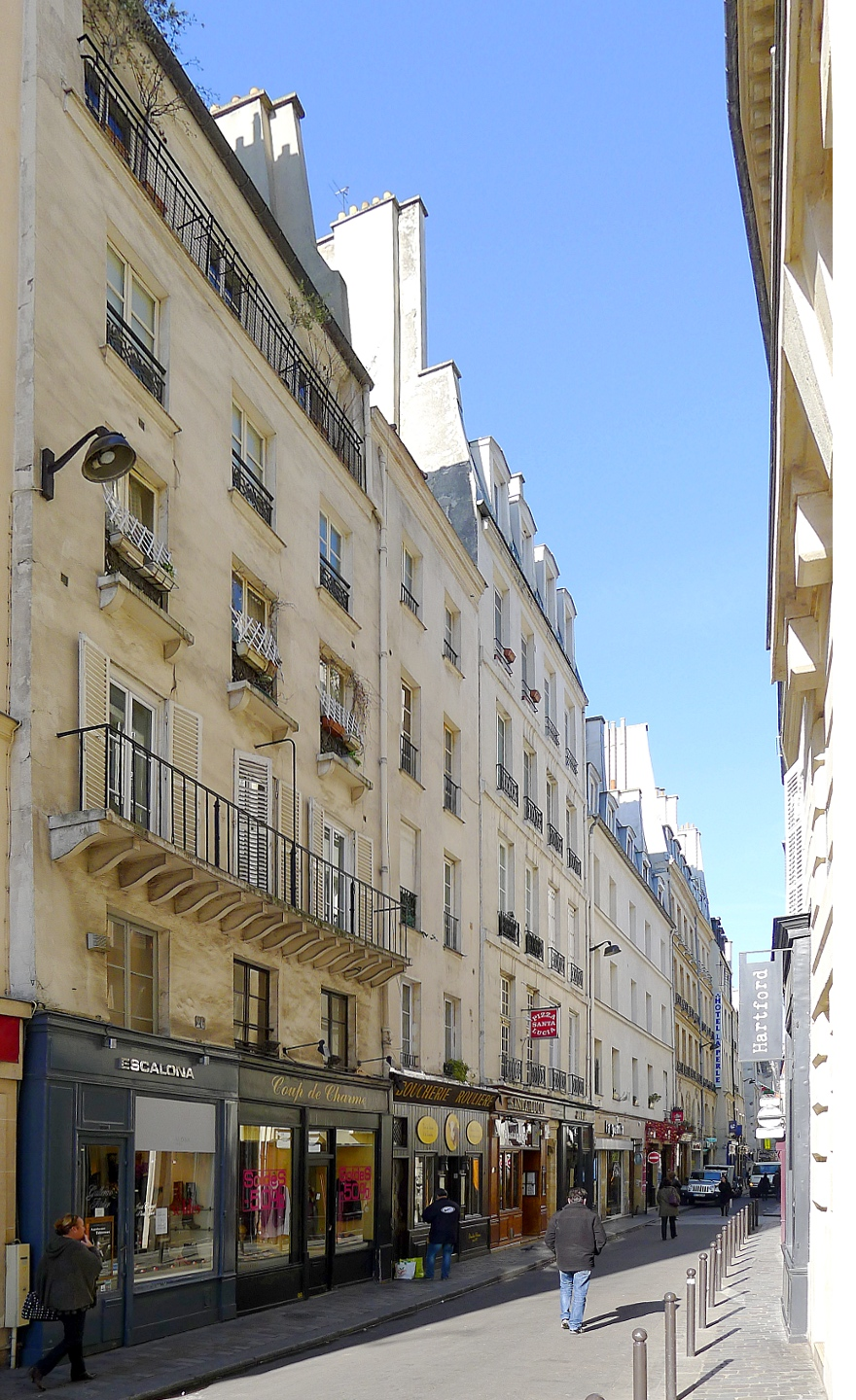 Canettes street - Paris